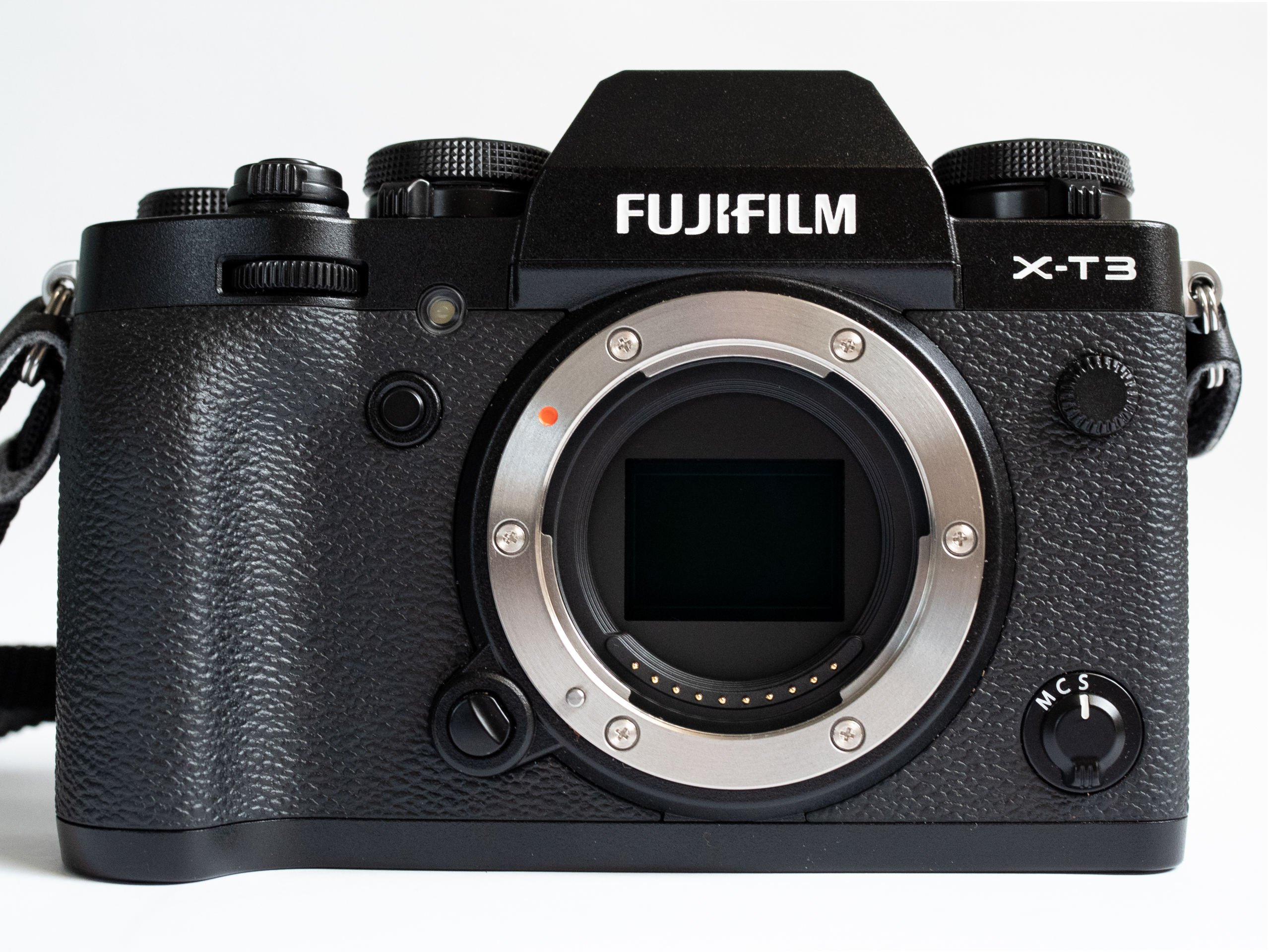 Fuji X-T3 plan view front